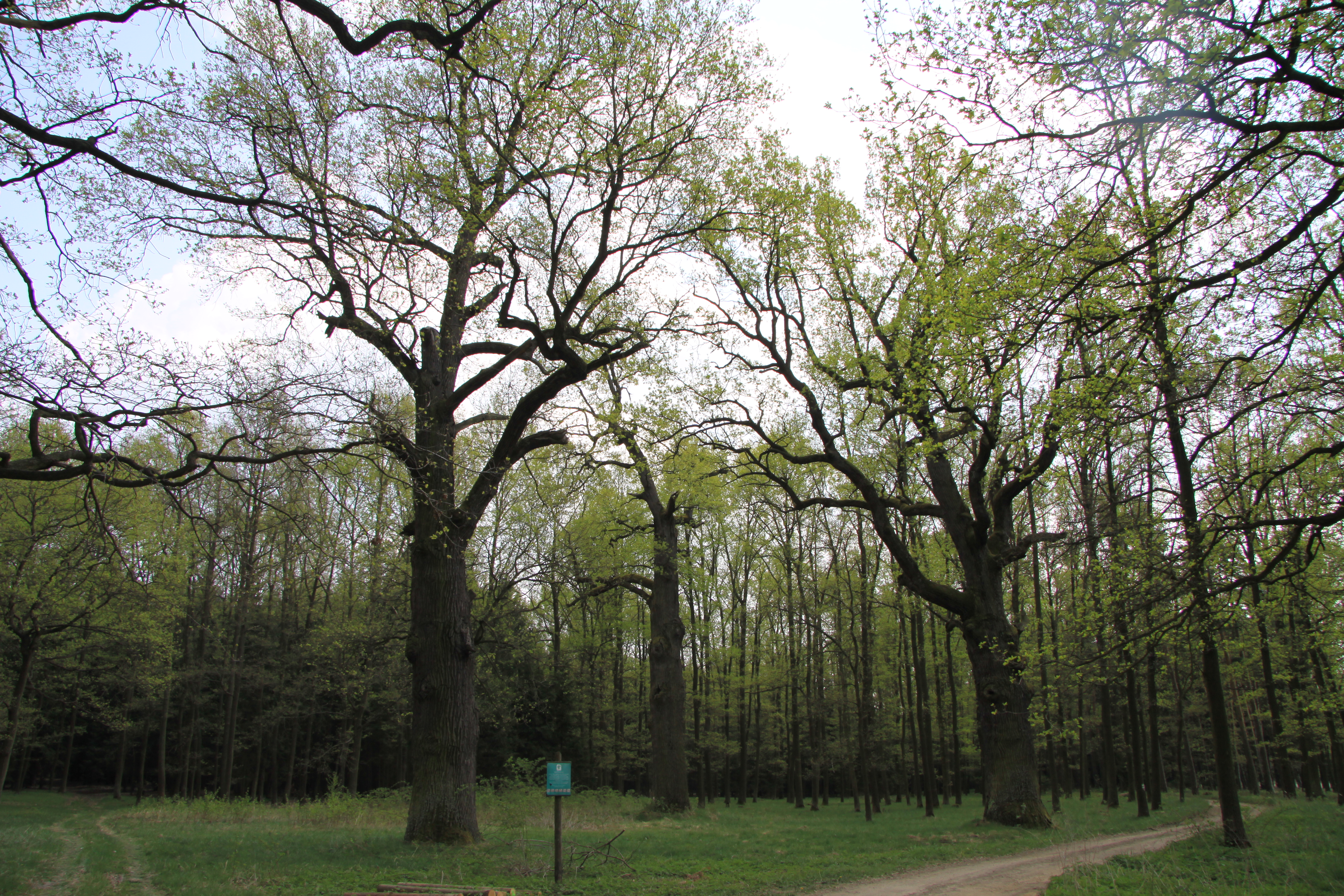 Schwarzenberské duby near Zahájí, České Budějovice District, Czech Republic